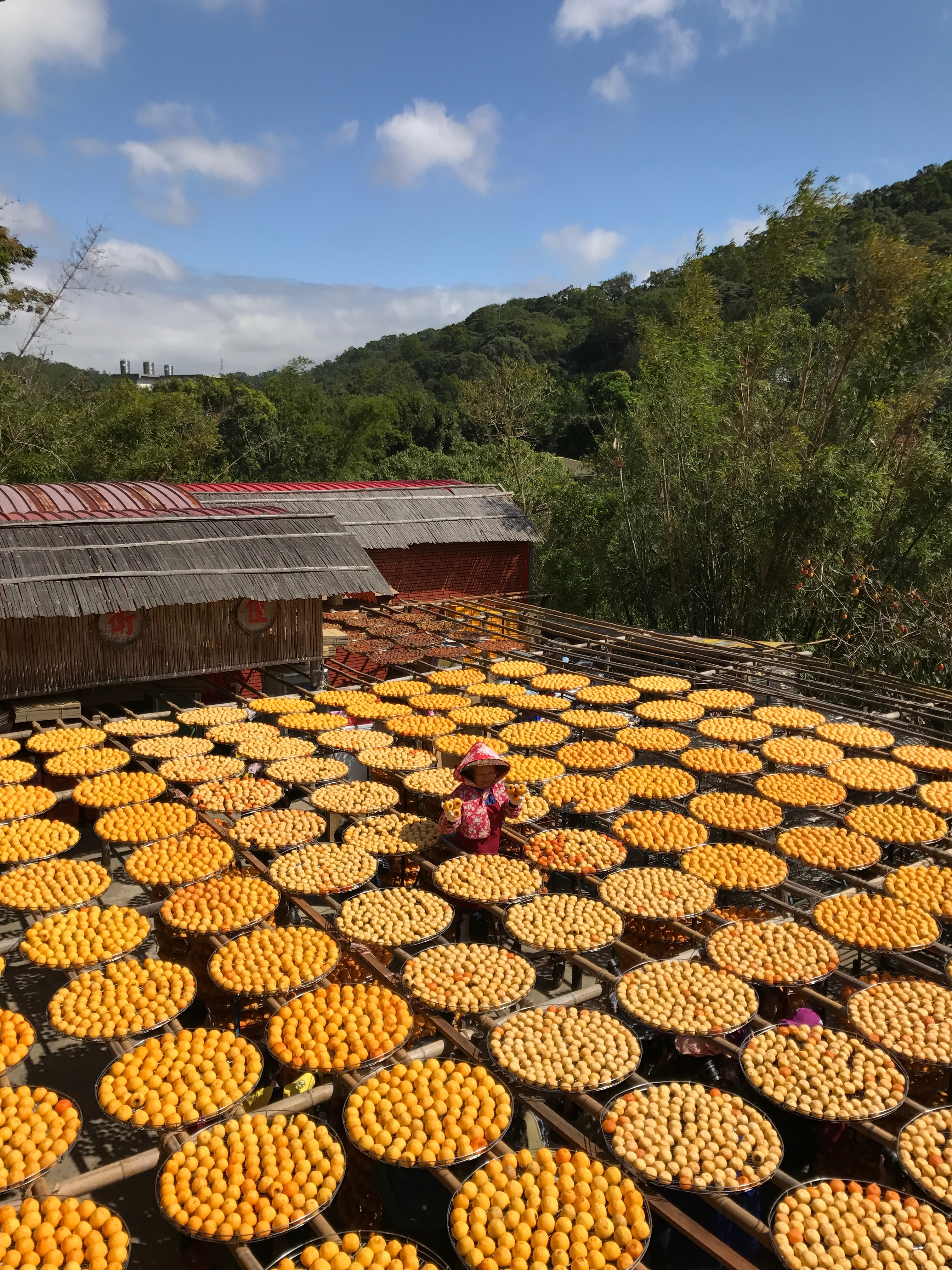 Persimmons drying under the sun in Xinpu.